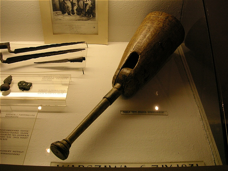 made during a summer day in the Museum of the Polish Army in Warsaw Wooden leg of Gen. Józef Sowiński, a hero of the November Uprising